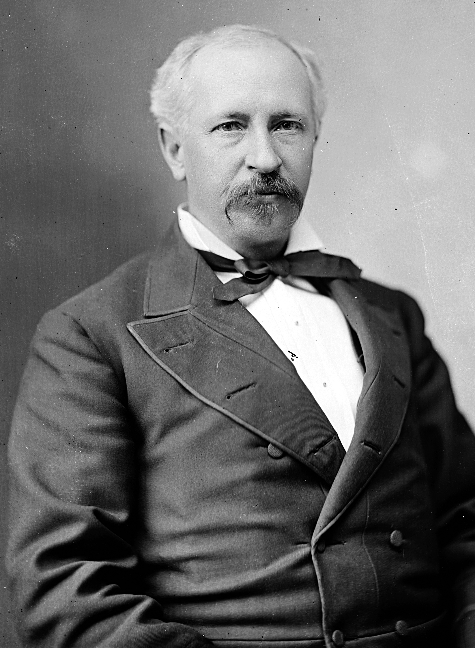 Seth Hartman Yocum, US Representative from Pennsylvania